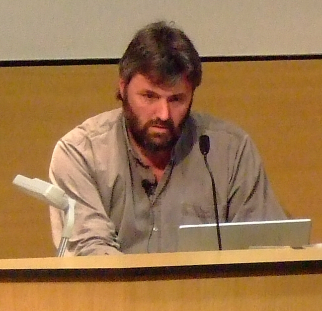 Steve Bell (Cartoonist) at Dundee University